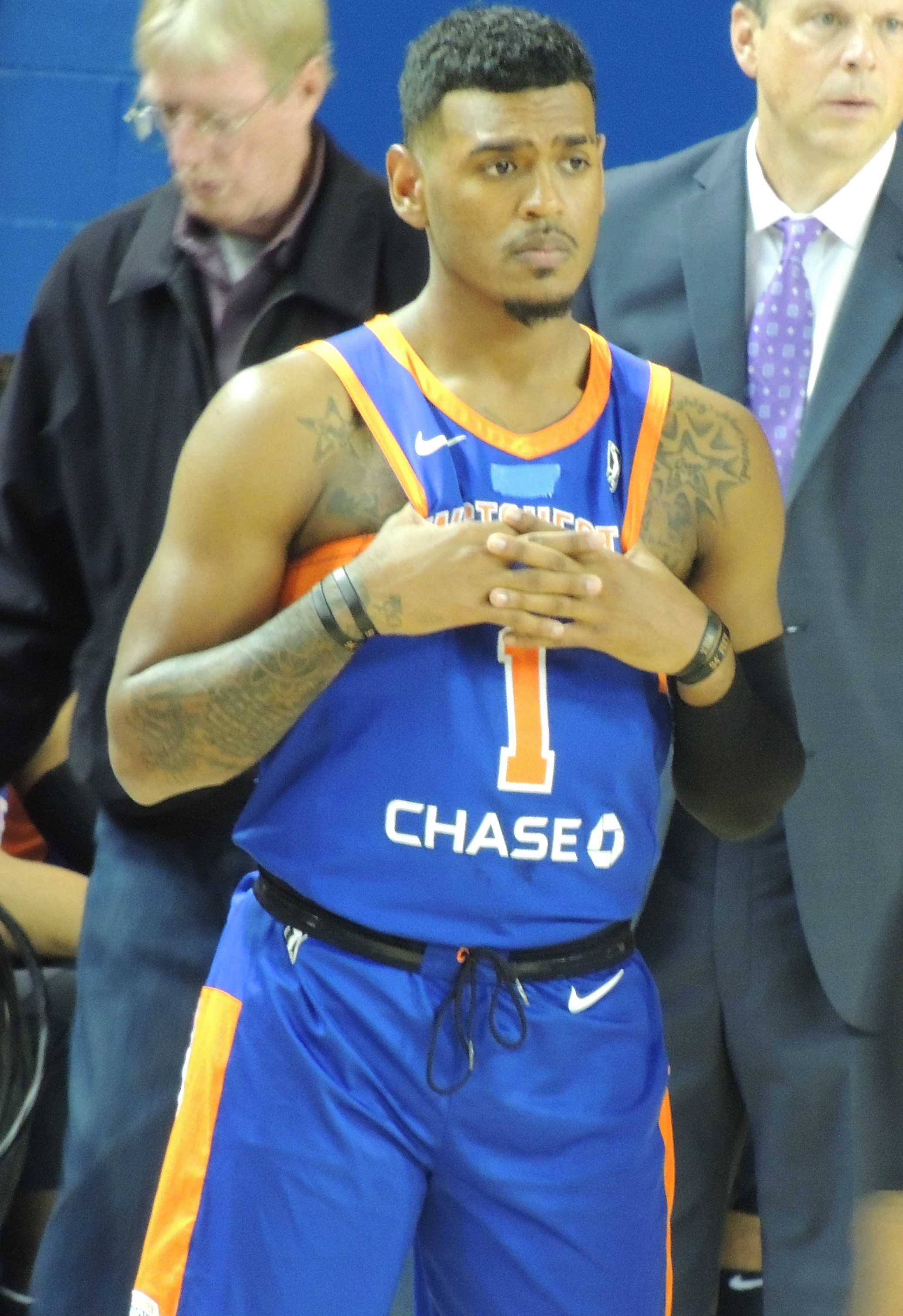 Westchester Knicks guard Xavier Rathan-Mayes